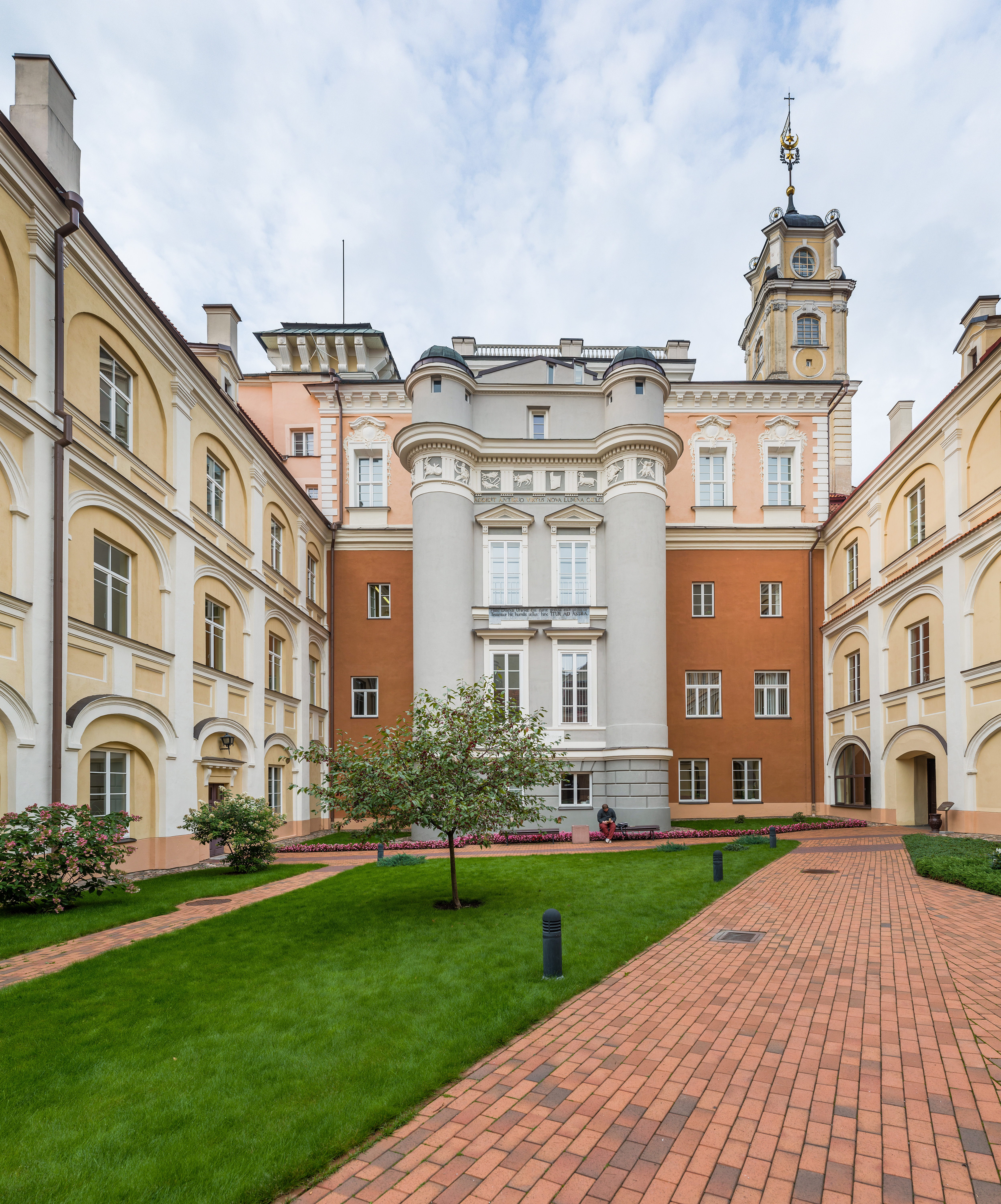 The M. K. Sarbievijus Courtyard of Vilnius University, Vilnius, Lithuania, looking north toward the bookshop.